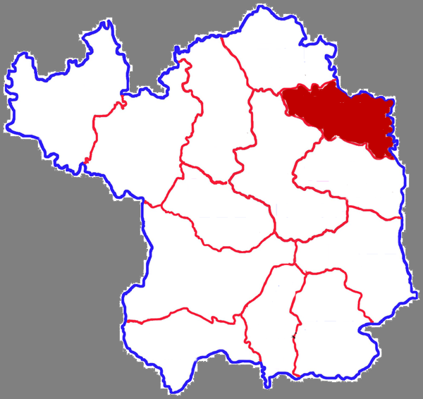 Location of Yanchuan county in Yan'an city, China